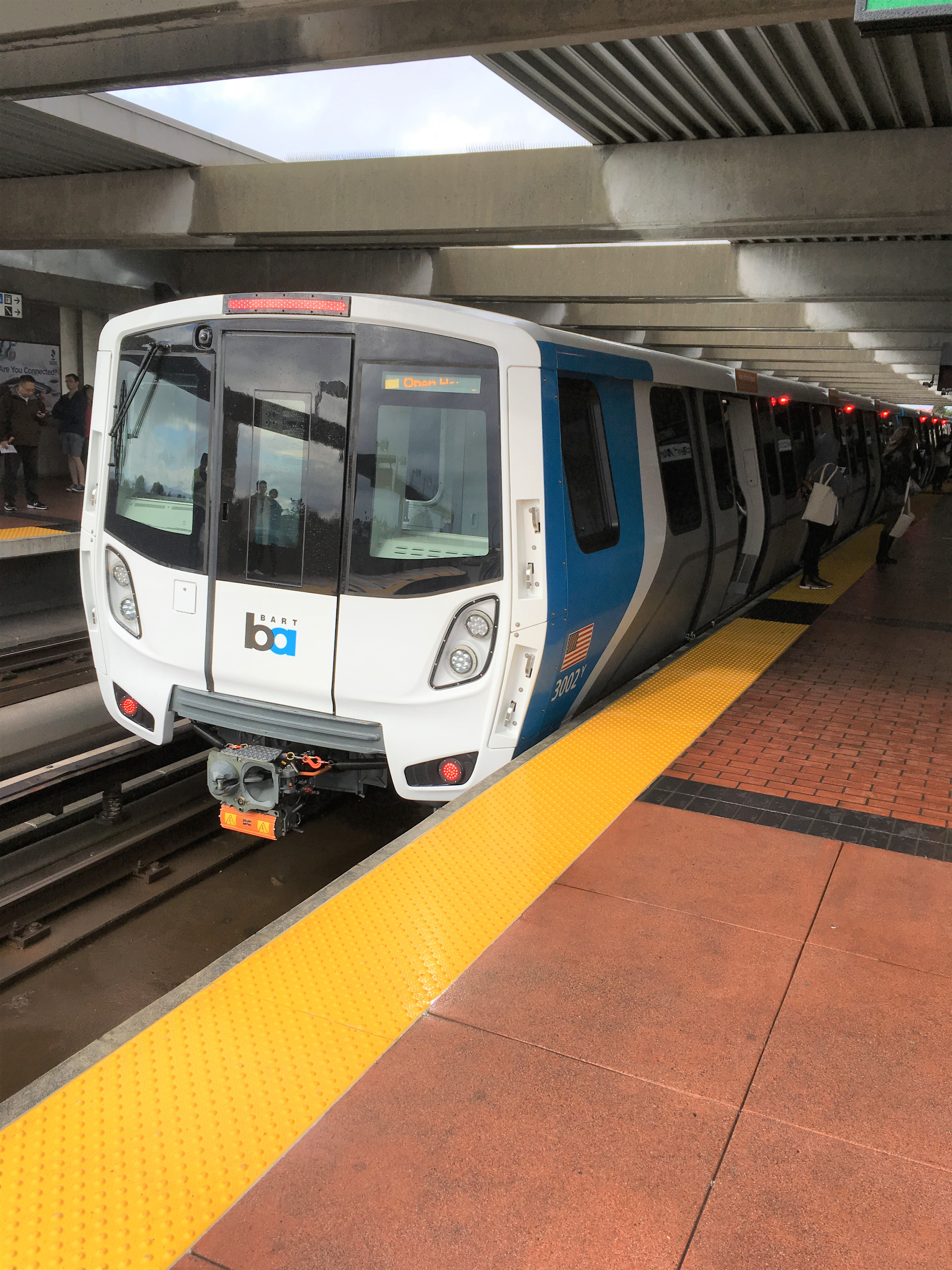 Future Fleet Open House at El Cerrito Del Norte Station